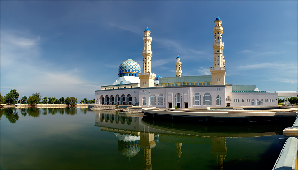 The Masjid Bandaraya (City Mosque) in Kota Kinabalu, Sabah, Malaysia.